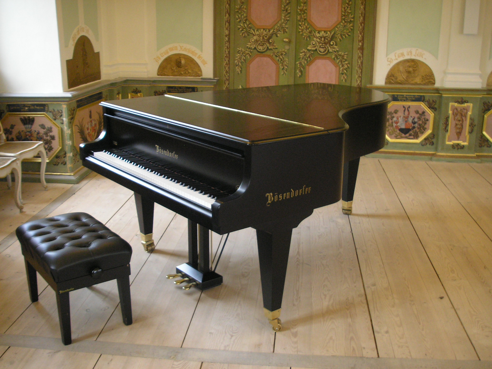 Image of a Bösendorfer piano, taken in the Gut Hohen Luckow, located in Mecklenburg.